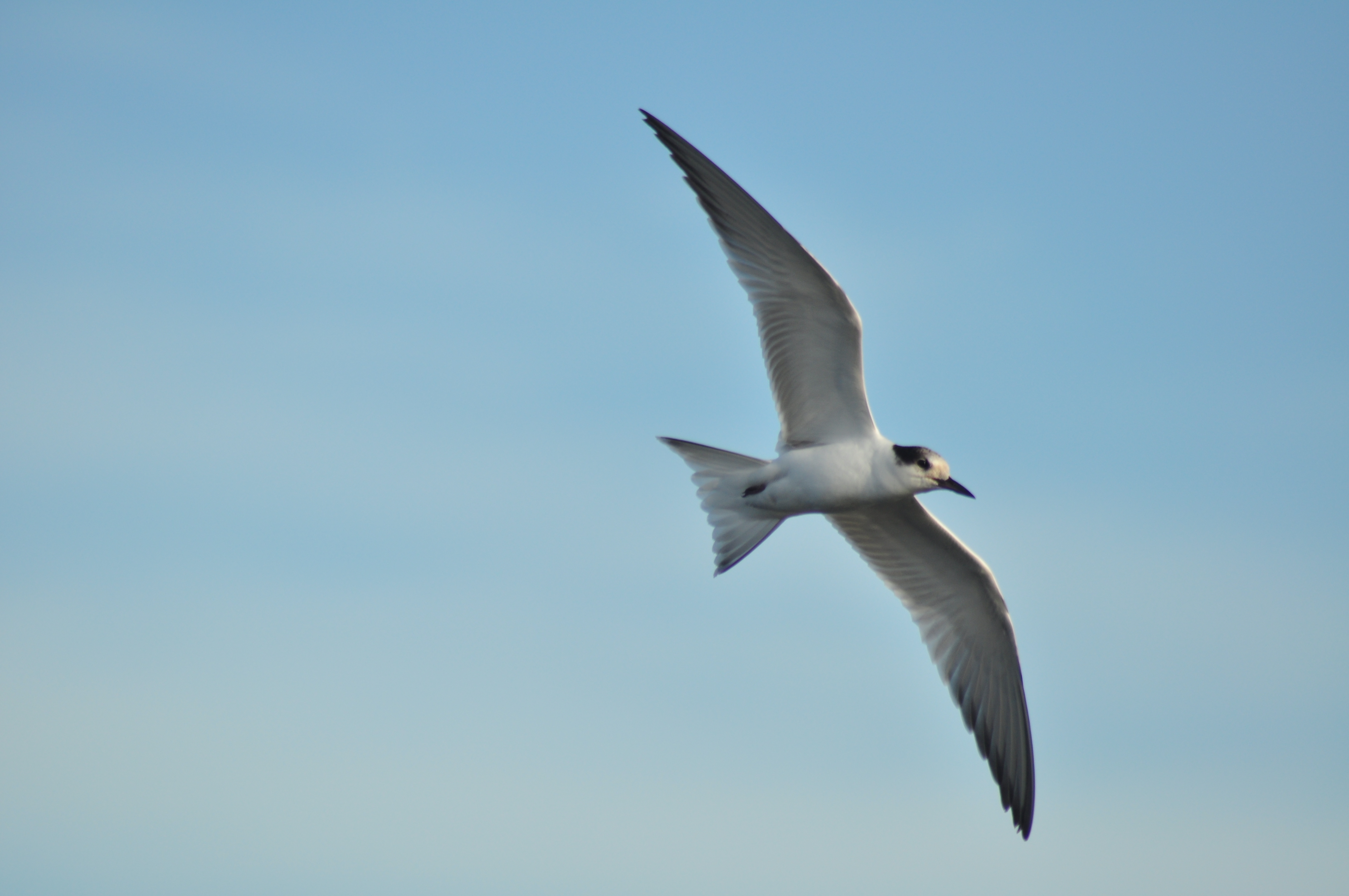 Common Tern Sterna hirundo, immature. Azores.